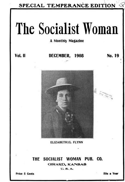 The Socialist Woman magazine cover, December 1908, featuring IWW leader Elizabeth Gurley Flynn.